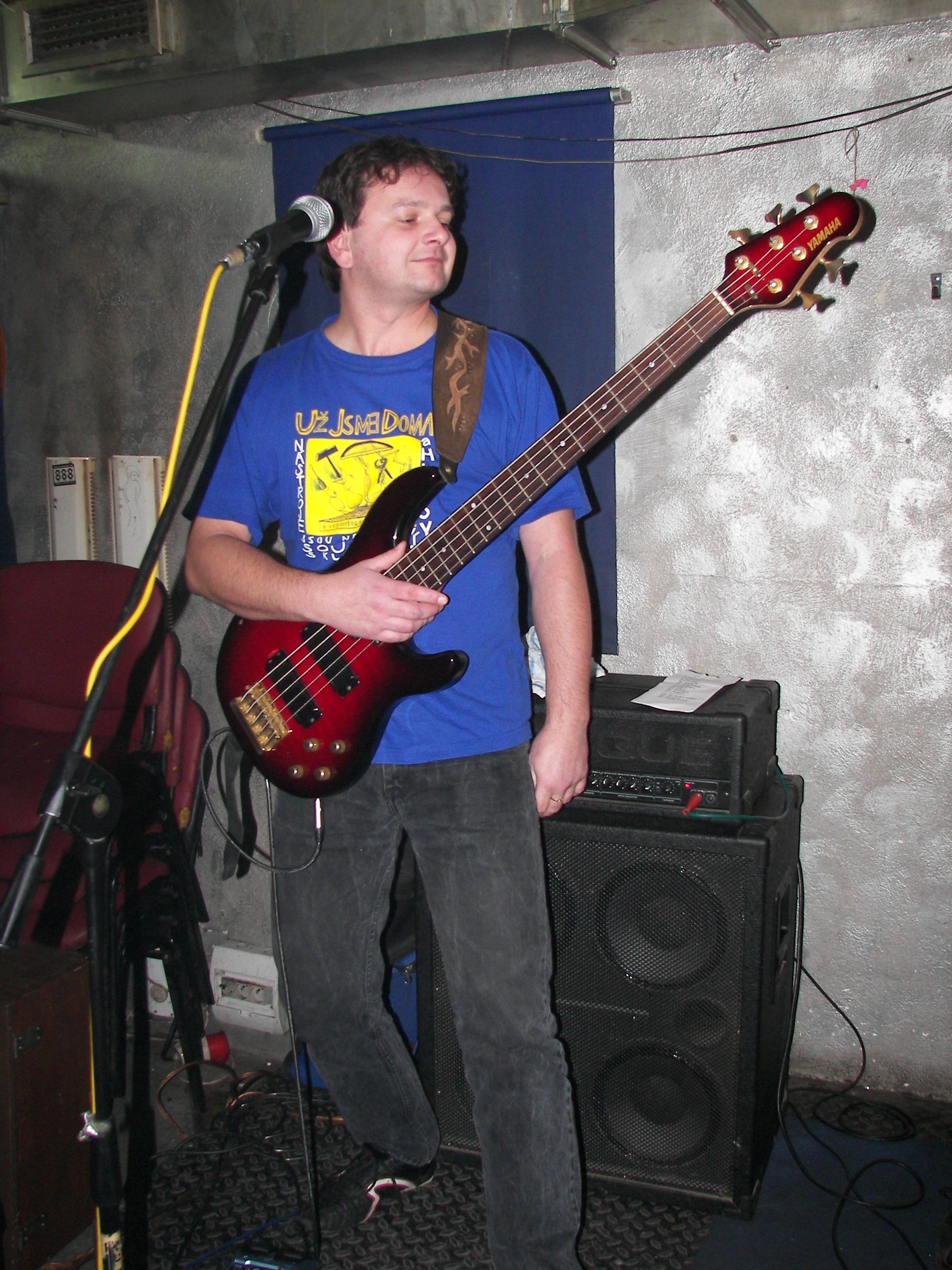 Pepa Červinka (Už Jsme Doma) performence at Aurora club in Warsaw, Poland (7 february 2007)